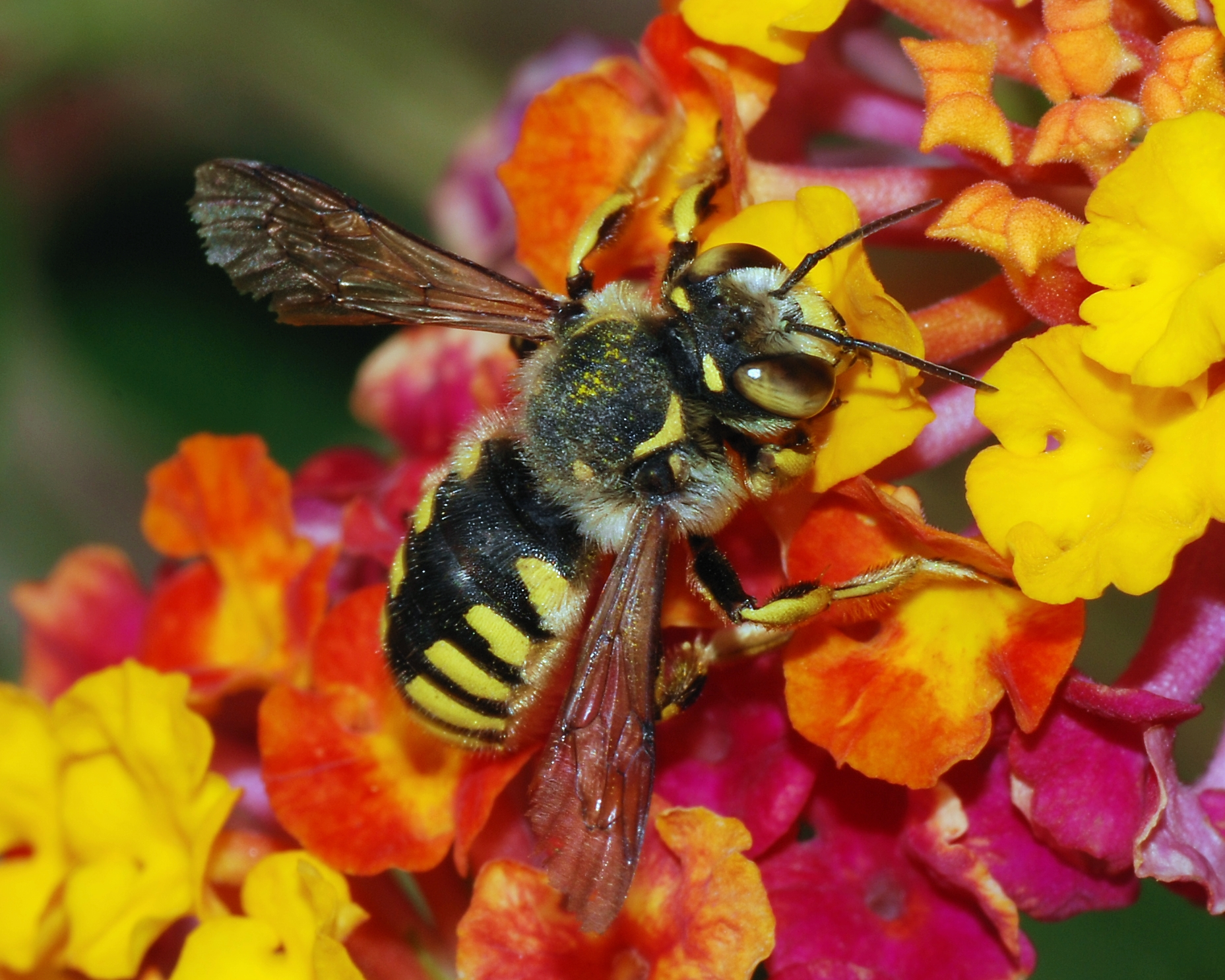 Solitary bee (Anthidium florentinum), feeding on a Lantana camara flower.